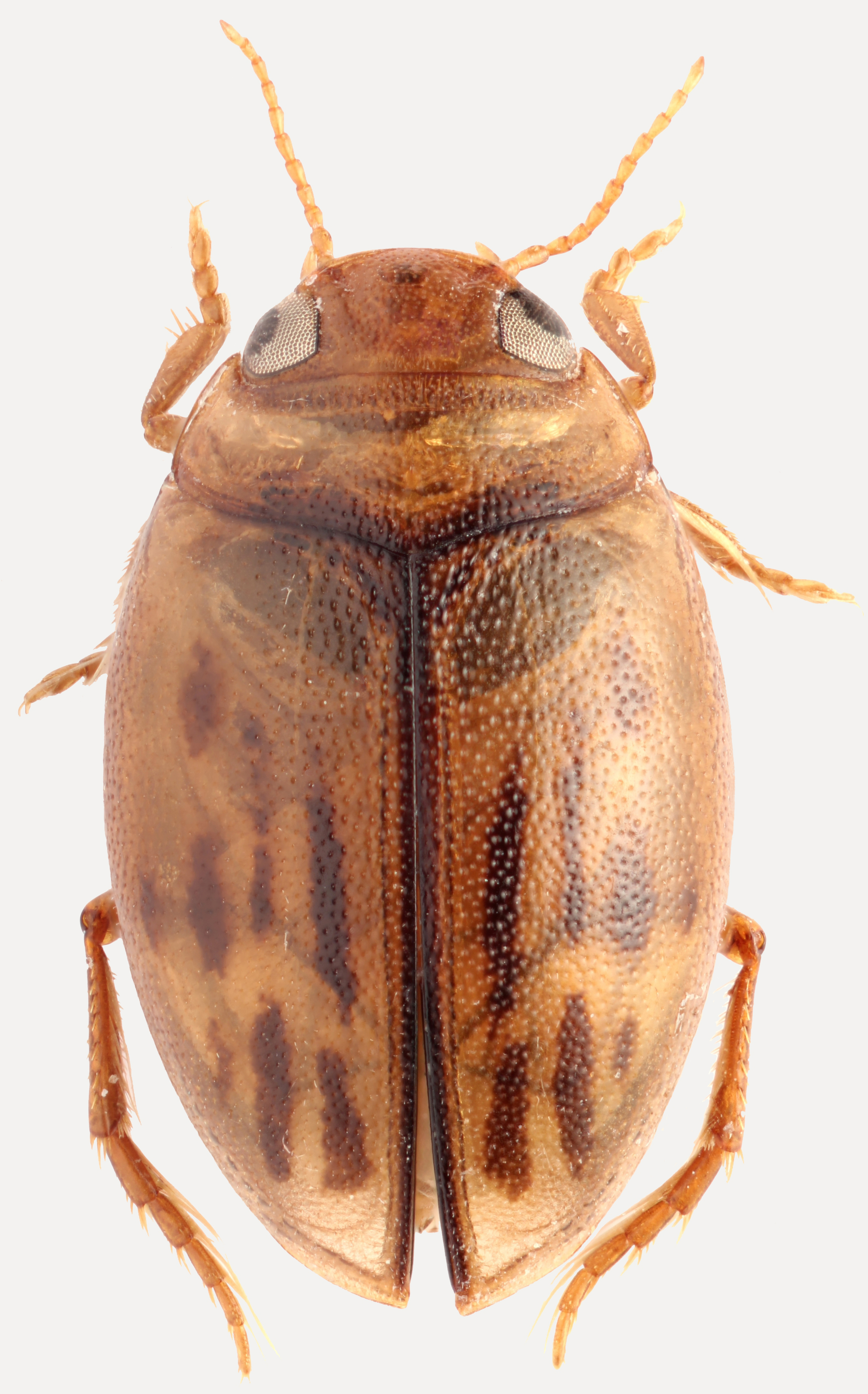 Dorsal habitus of Herophydrus musicus from the United Arab Emirates